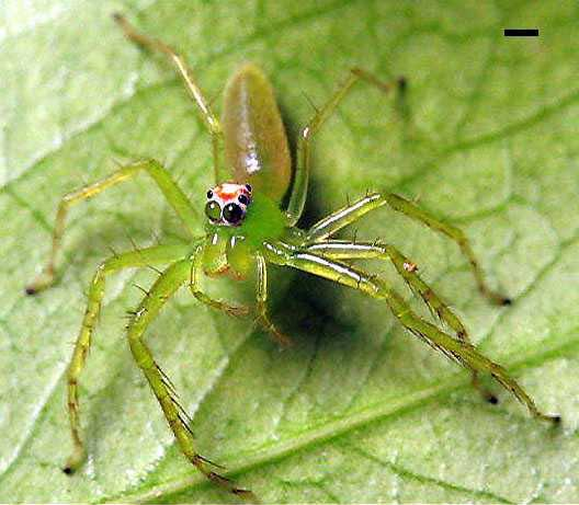 Female Lyssomanes viridis jumping spider from Greenville County, South Carolina, USA